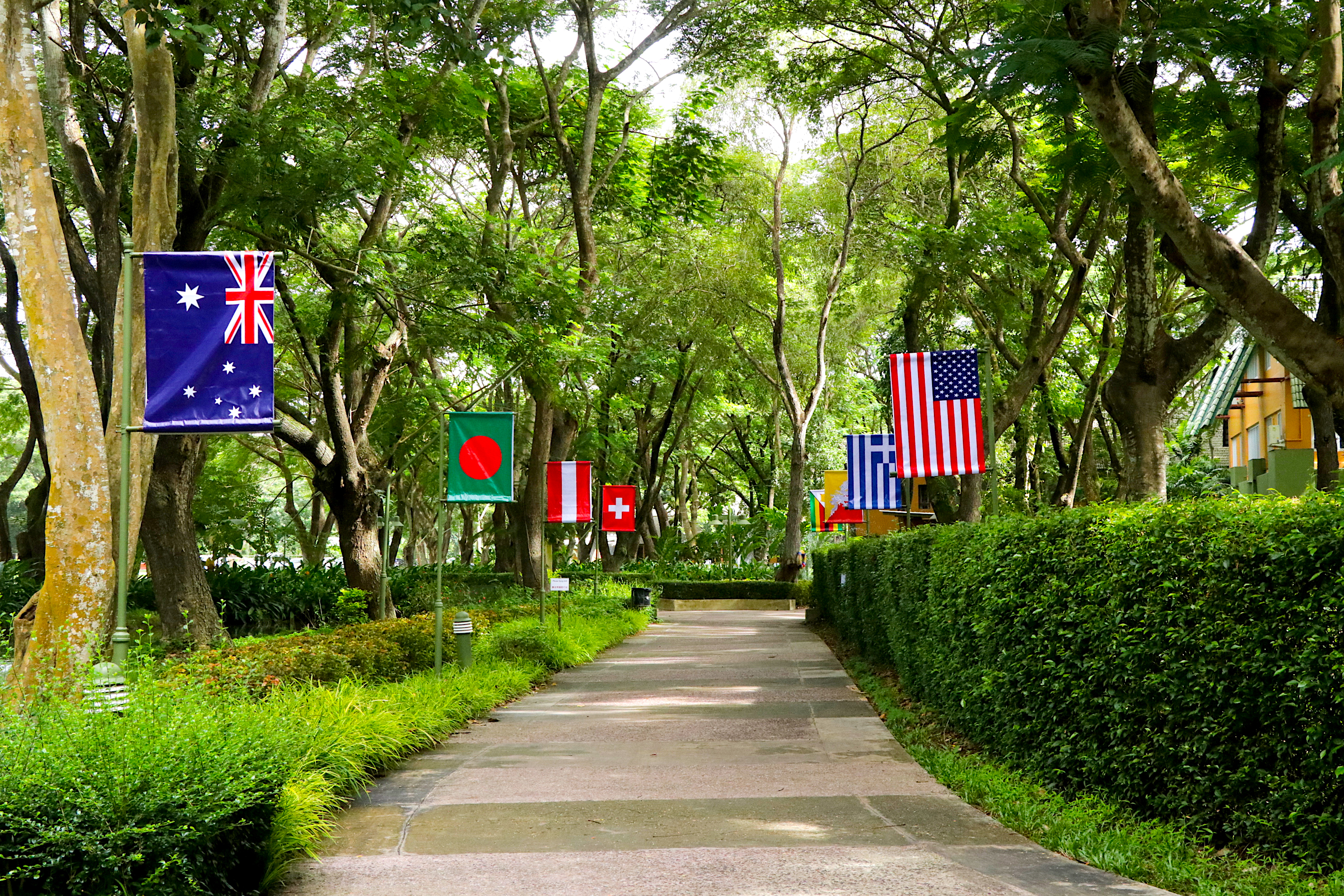 Prem Tinsulanonda International School Global Way